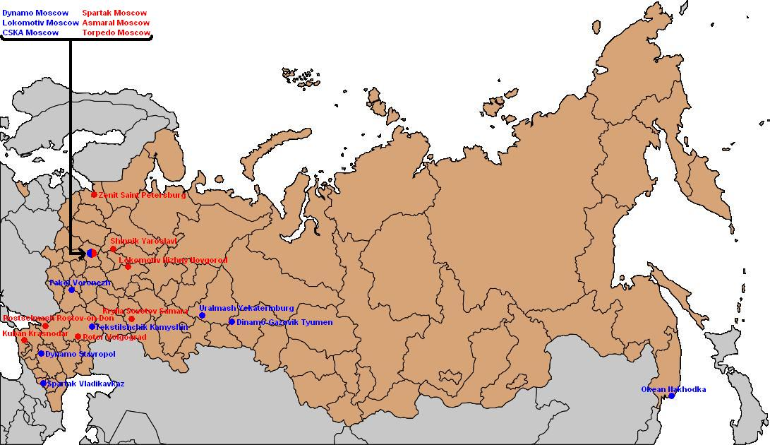 Russian Top League 1992 teams locations